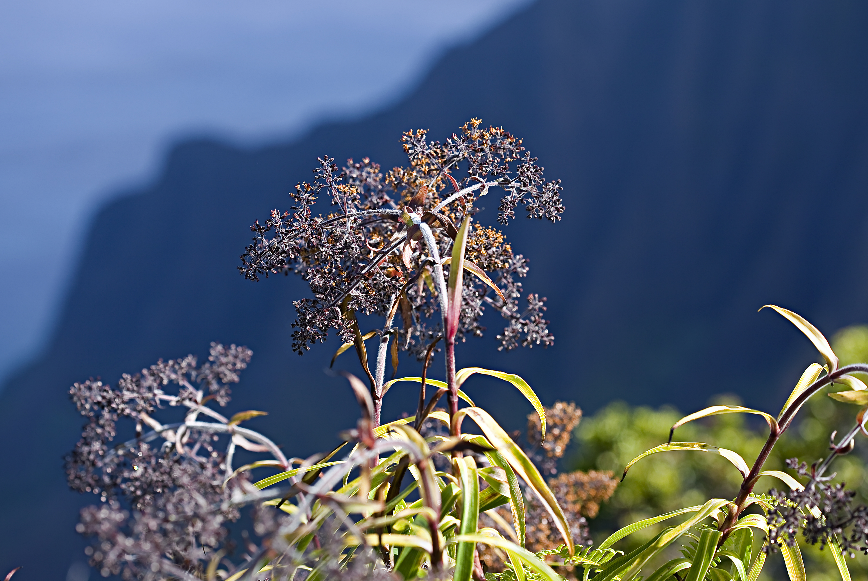 Dubautia microcephala (Kauai dubautia). This shrub just coming into bloom is seen here from near the Kalalau Lookout, Kauai, with the east wall of Kalalau Valley in the distance.